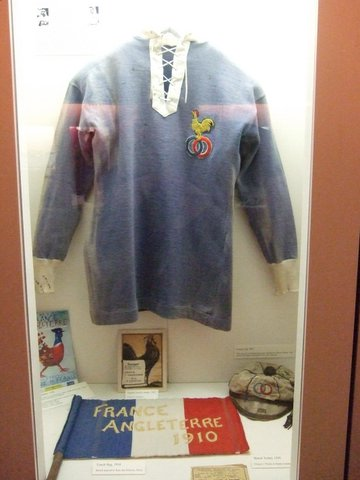 Jersey worn by France national rugby union team in a match against England, in 1910.